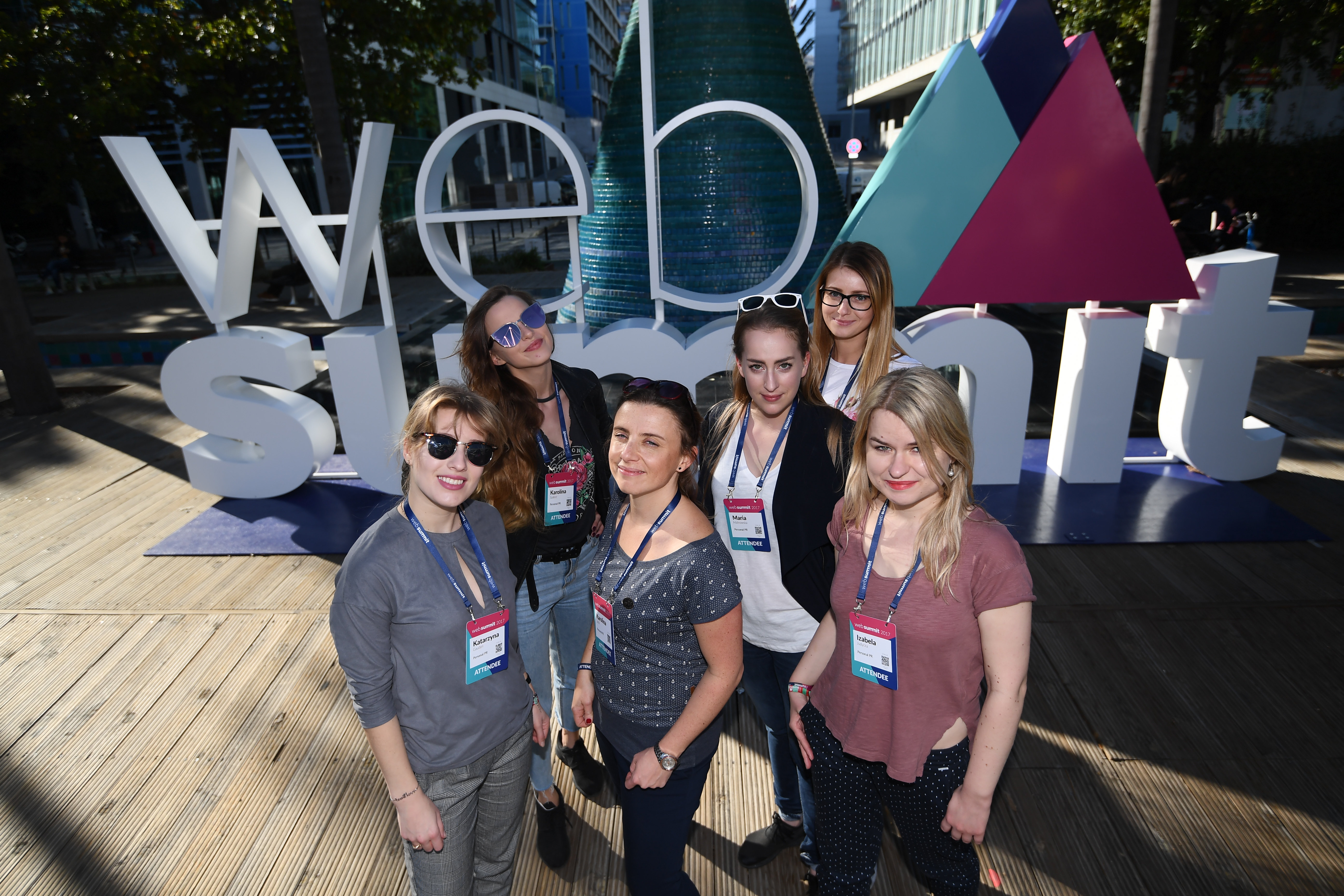 6 November 2017; Attendees prior to the Opening Ceremony during the Web Summit 2017 Opening Cermony at Altice Arena in Lisbon. Photo by Stephen McCarthy/Web Summit via Sportsfile